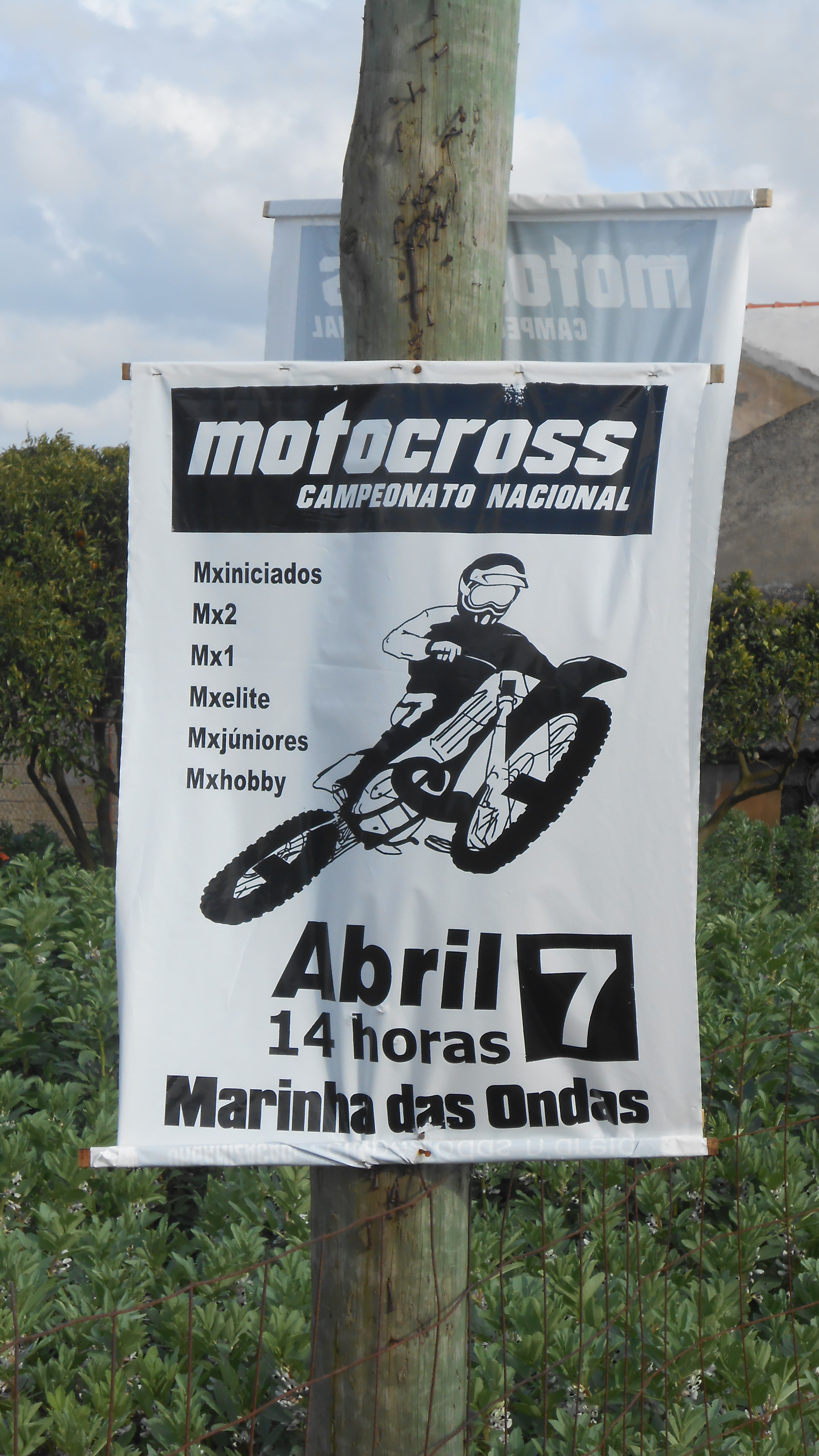 Anouncing the national motocross championship 2013 in Marinha das Ondas, Figueira da Foz